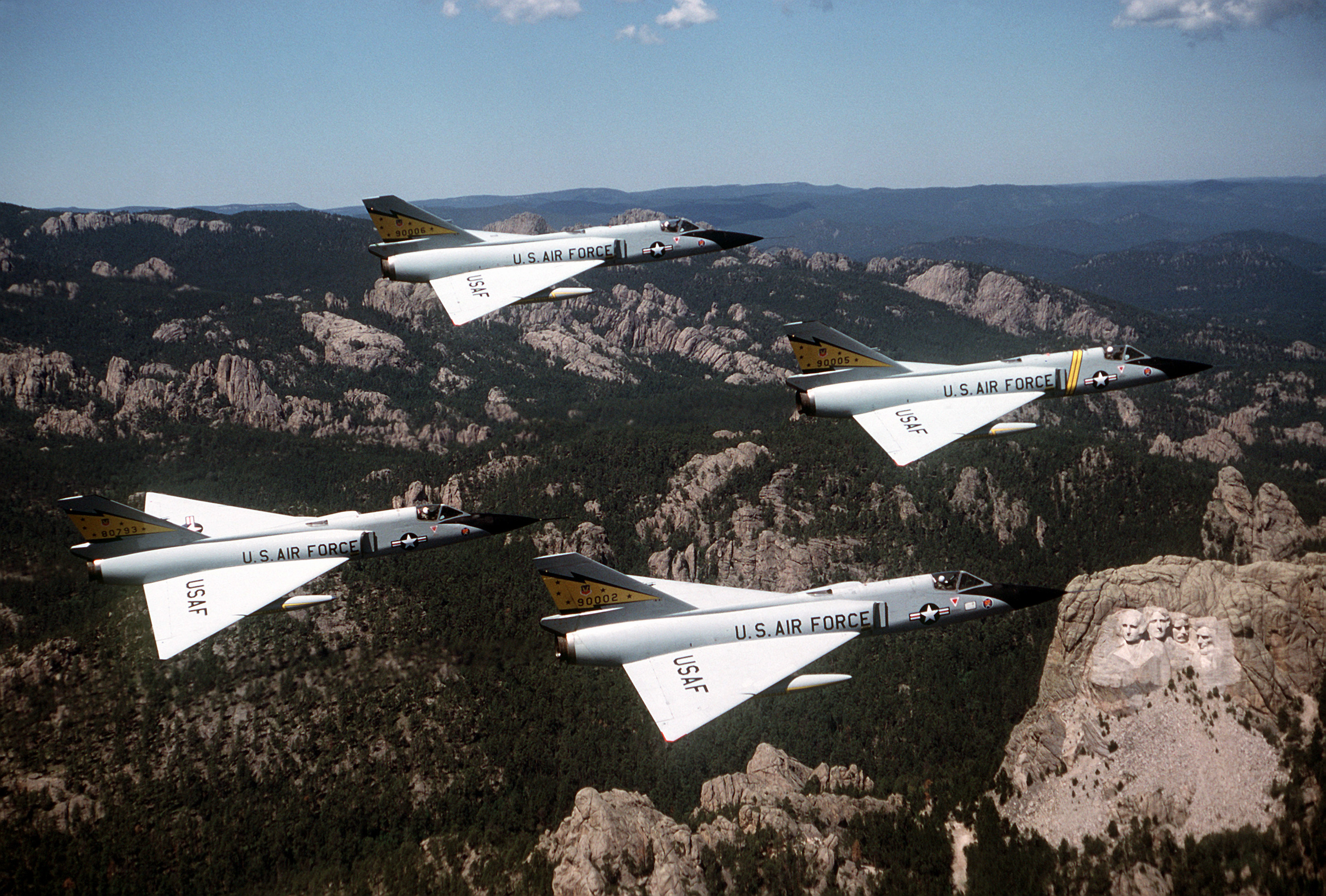 Four U.S. Air Force Convair F-106A Delta Dart fighters (s/n 58-0793, 59-0002, 59-0005, 59-0006) from the 5th Fighter Interceptor Squadron, Minot Air Force Base, North Dakota, fly over Mount Rushmore, South Dakota (USA), on 27 July 1981.